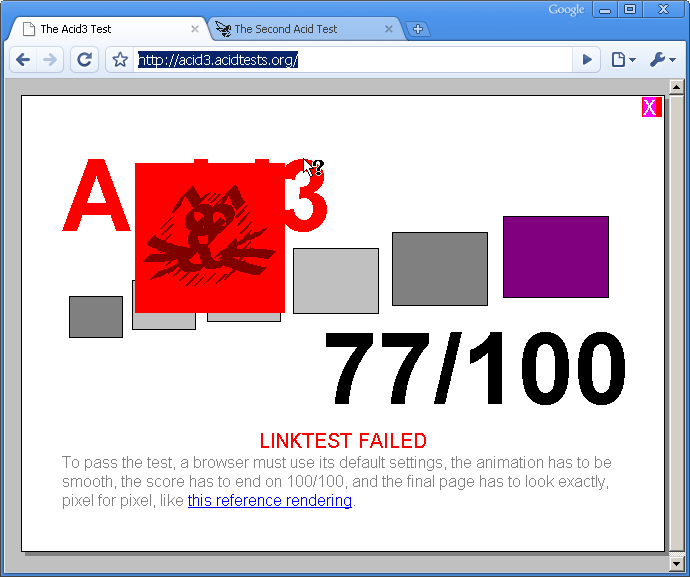 Google Chrome Acid 3 Test